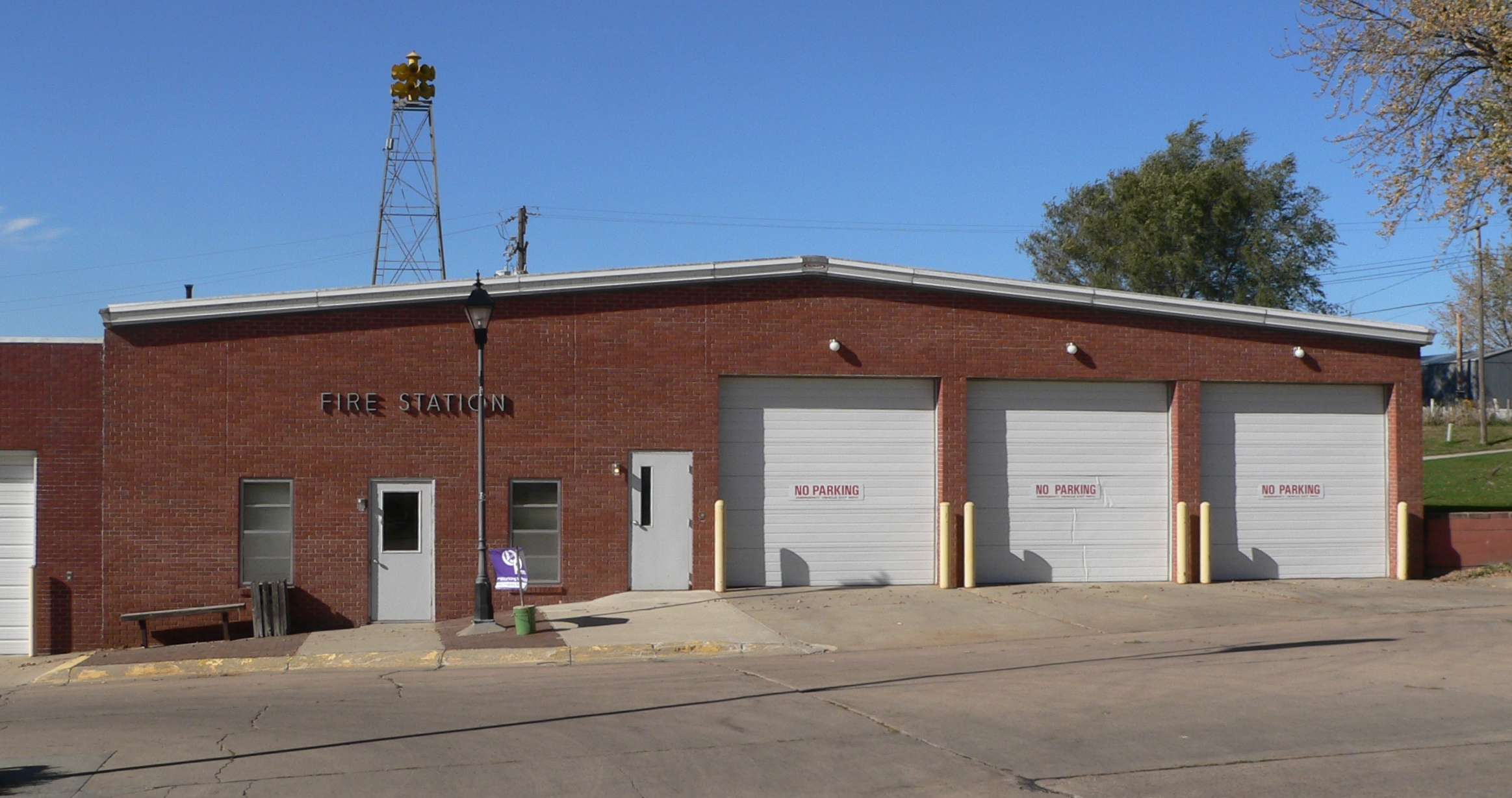 Fire station, located on west side of Main Street between 3rd and 4th Street in Beemer, Nebraska.